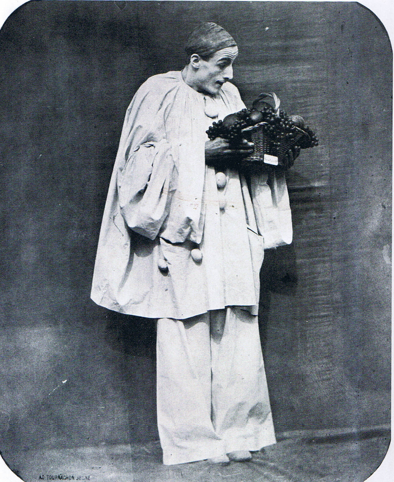 Photo of mime Charles Deburau